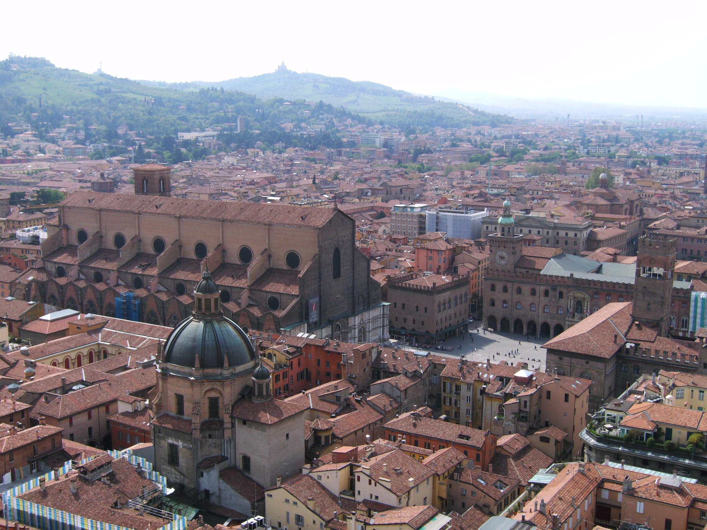 San Petronio, Piazza Maggiore and Palazzo d'Accursio, photo taken from the top of the Two Towers, Bologna, Italy.